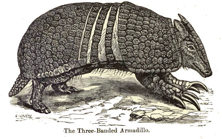 Three banded Armadillo Tolypeutes matacus